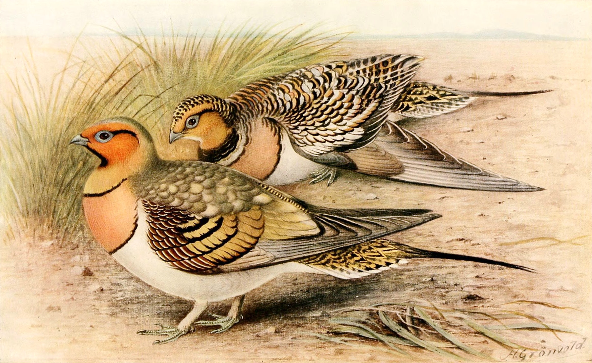 The Large Pin-tailed Sand-grouse Pteroclurus alchatus caudacutus = Pterocles alchata caudacutus (Subspecies of Pin-tailed Sandgrouse)